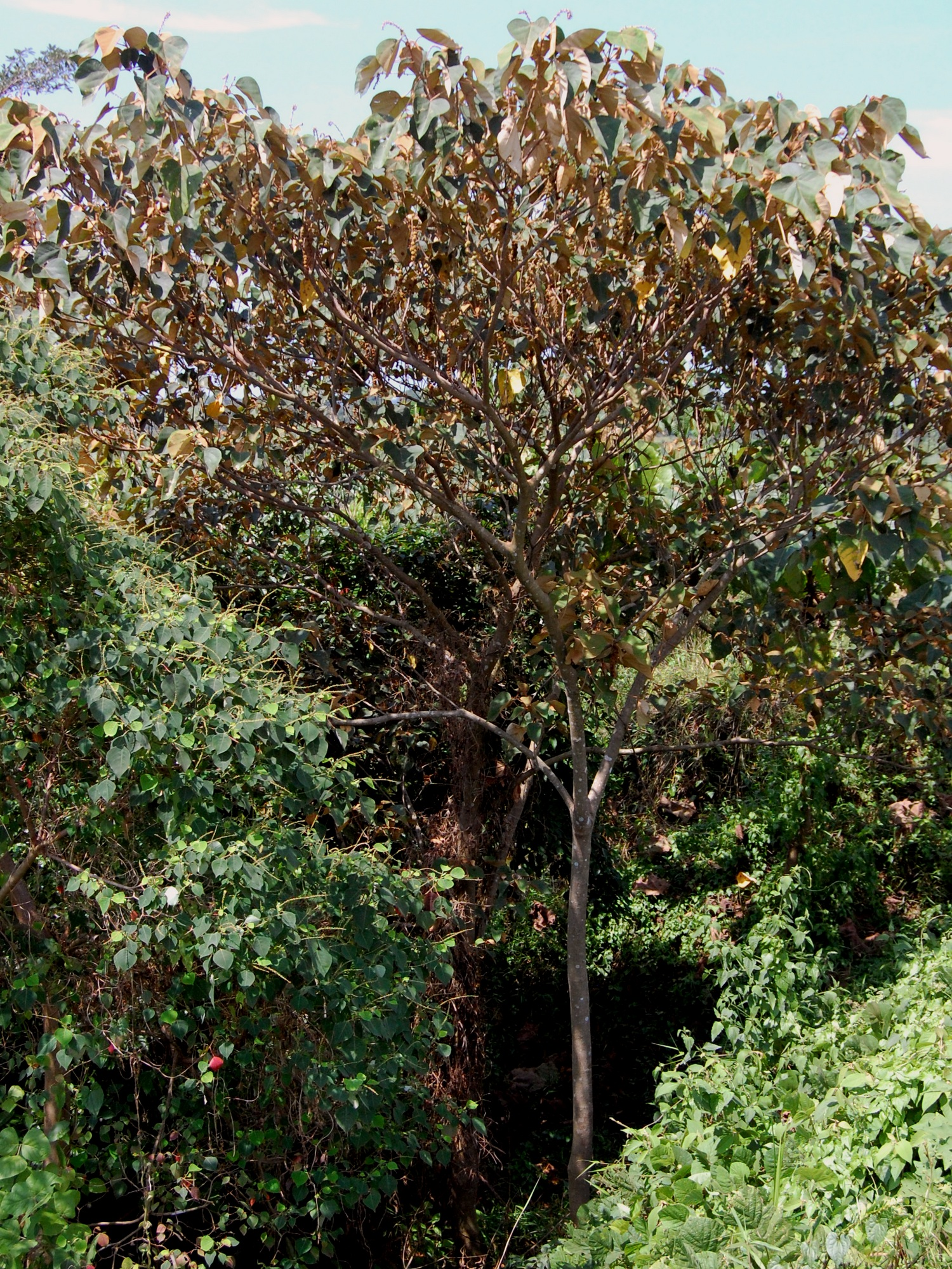 Mallotus macrostachyus; habits. From Central Kalimantan, Indonesia.